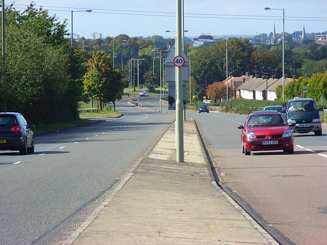 Shepherd's Hill, Earley The A4, London Road, climbs up the hill from Reading towards Woodley and Sonning.